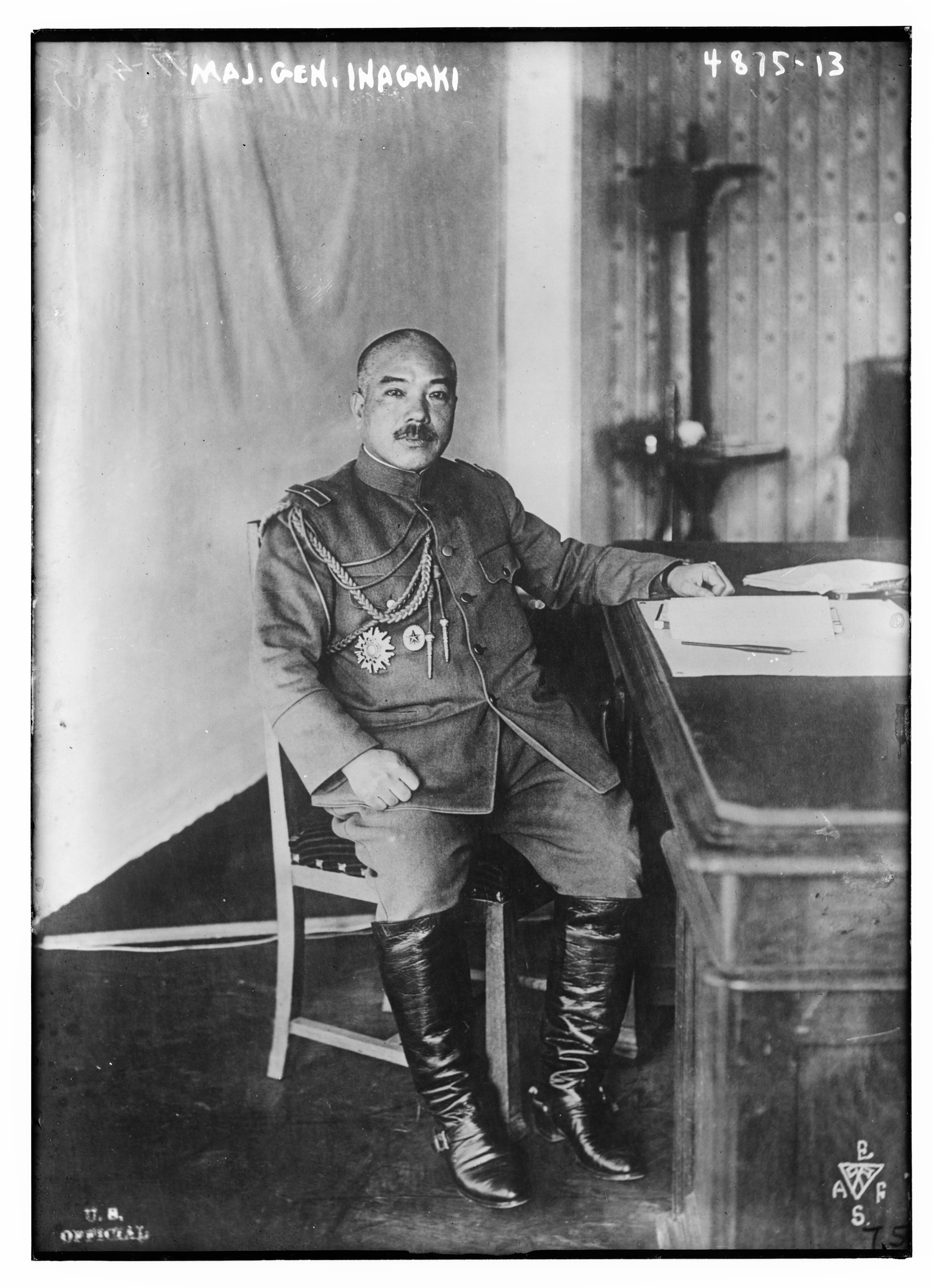 Title: Maj. Gen. Inagaki Abstract/medium: 1 negative : glass ; 5 x 7 in. or smaller.